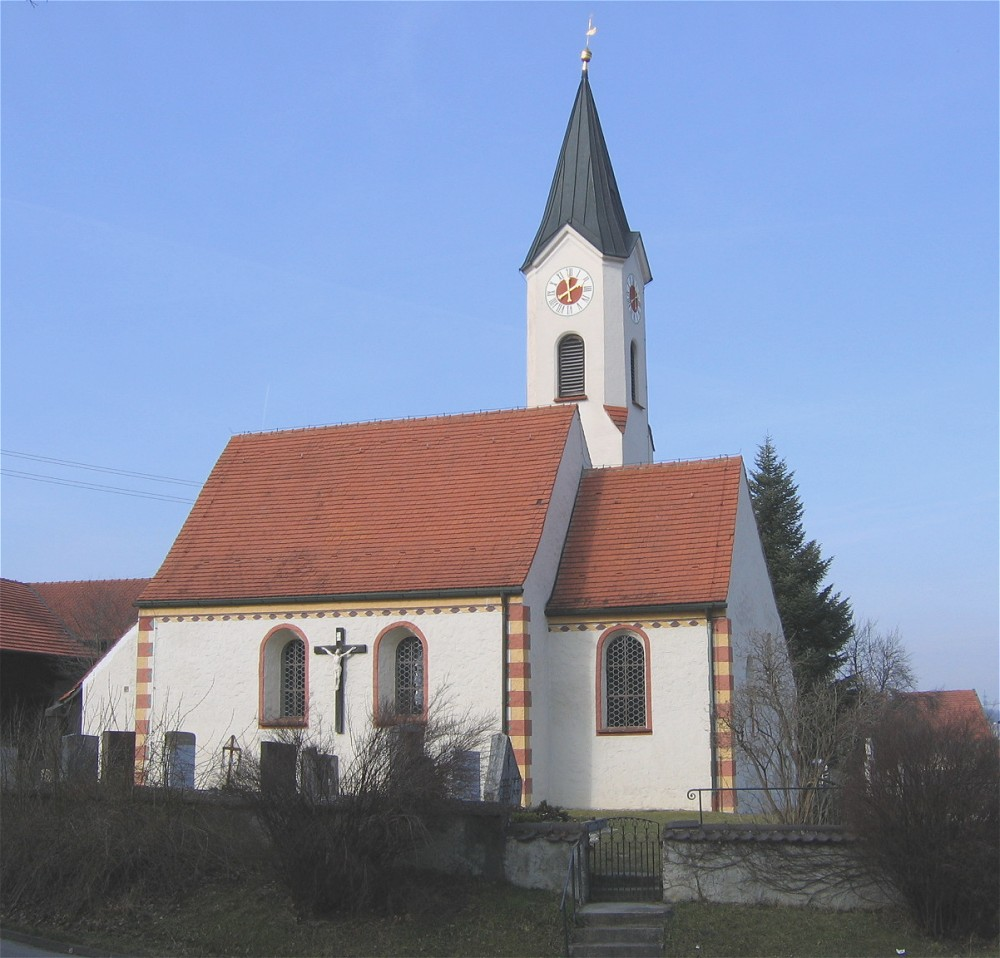 Lorenzenberg, view of St Lawrence's Subsidiary Church from south-east.